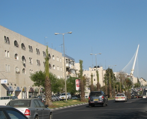 Kanfei Nesharim Street, Givat Shaul, Jerusalem, with view of Chords Bridge.